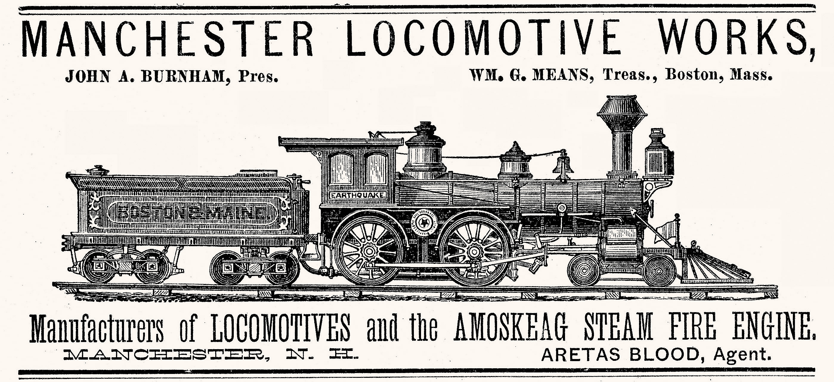 Manchester Locomotive Works advertisement published in the "The Railway Review", Vol. XXII, No. 35 Chicago, September 2, 1882